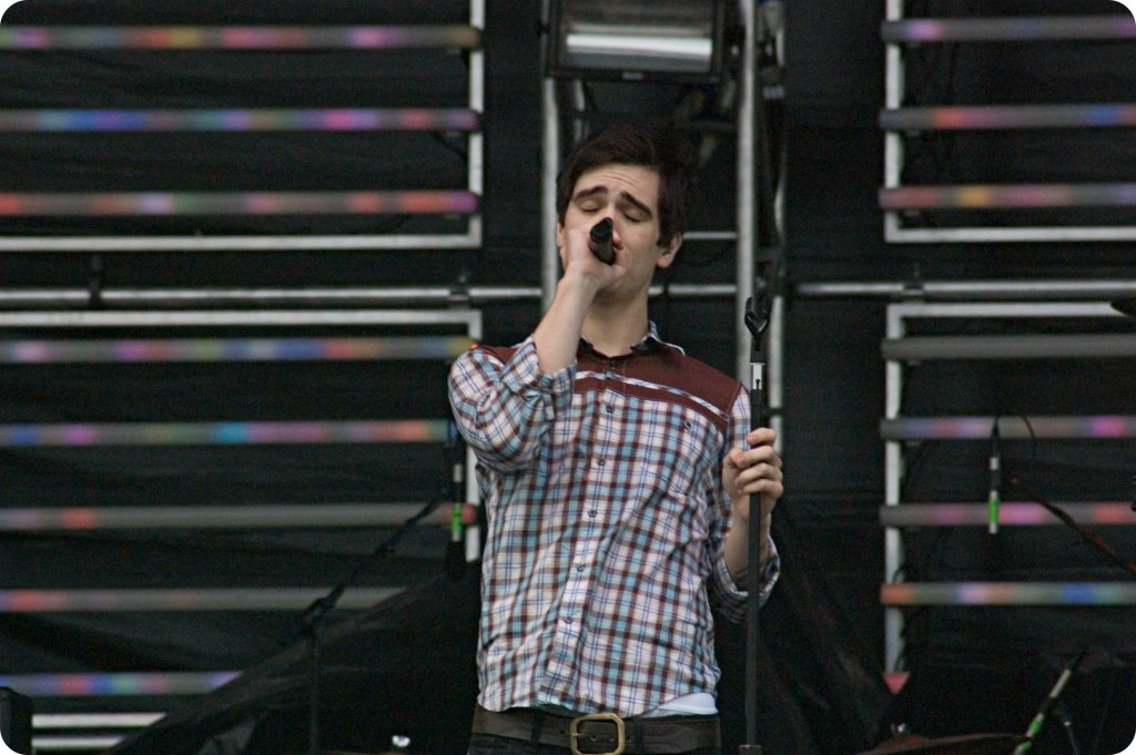 Brendon Boyd Urie (b. April 12, 1987 in Las Vegas, Nevada)[1] is the lead singer and frontman of the band Panic! at the Disco. He also plays keyboard, accordion, piano, oboe, organ, cello, bass, drums and guitar.